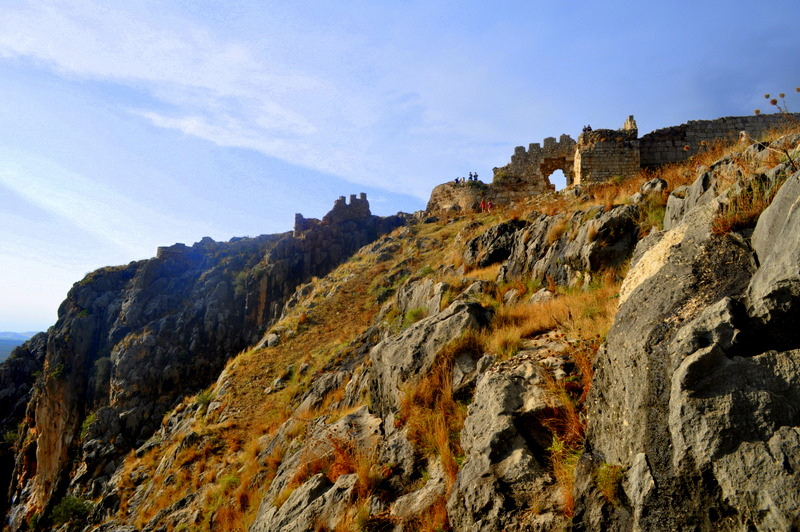 Part of the defensive works of the fortress of Anavarza alongside the remnants of a fierce summer rainstorm. Anavarza is an impressive fortress sitting on a massive limestone escarpment which rises to a height of 2 km. and has a very capricious climate. This may be the site of ancient Kundu, a 7th century Assyrian foundation, but the first evidence for actual identification comes from 1st century BC coins. The name may be derived from the Persian "nabarza", which means unconquered, and should have originally applied to only the upper portion of the settlement. The city was part of the realm of Tarcondimotus II, who ruled a large part of the Cilician plain around 52 BC. The city seems to have come under direct Roman rule by the rule of Claudius (42-54 CE). The pathetic emperor Elagabalus was once one of the demiurges. Anavarza was the principal settlement of Cilicia Secunda during the reign of Theodosius II (408-450 BCE). Though it declined during the Byzantine period, it was the capital of the Armenian kingdom from 1100-1200 CE. The city was completely abandoned when the Marmalukes defeated the Armenian kingdom in 1375 and was never reoccupied.